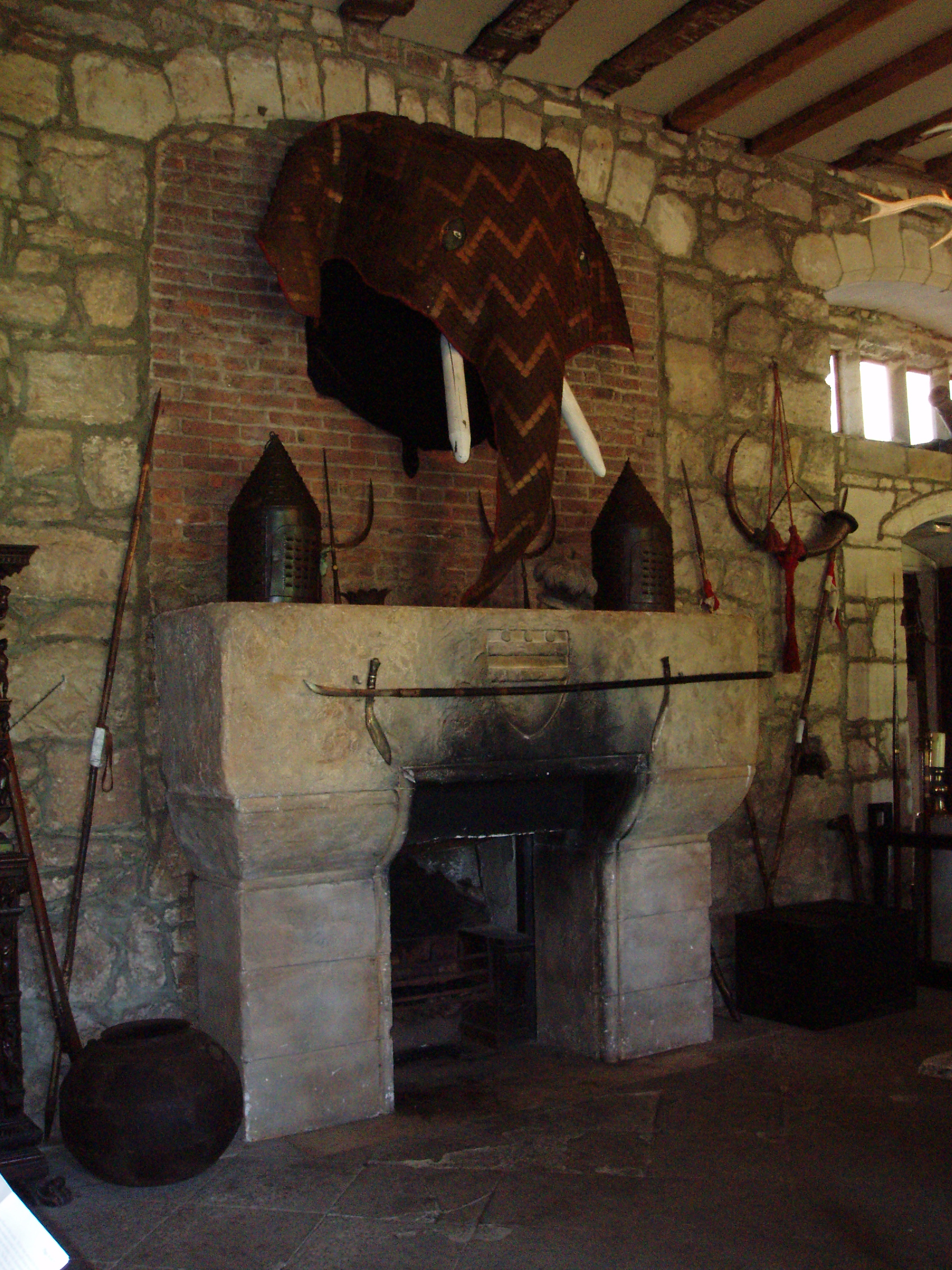 Fireplace in Chillingham Castle